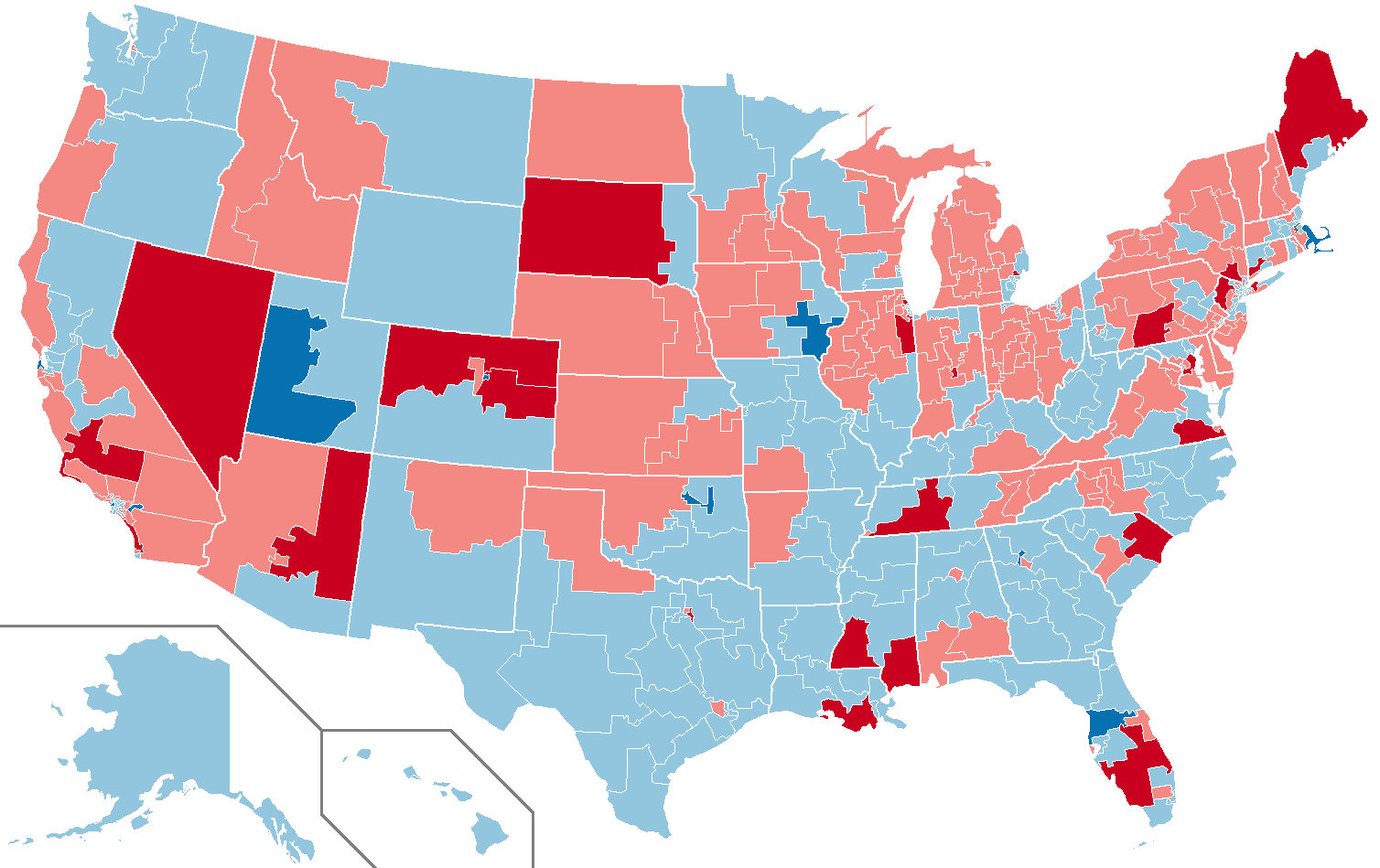 This maps shows the results of the 1972 House Elections in the United States.